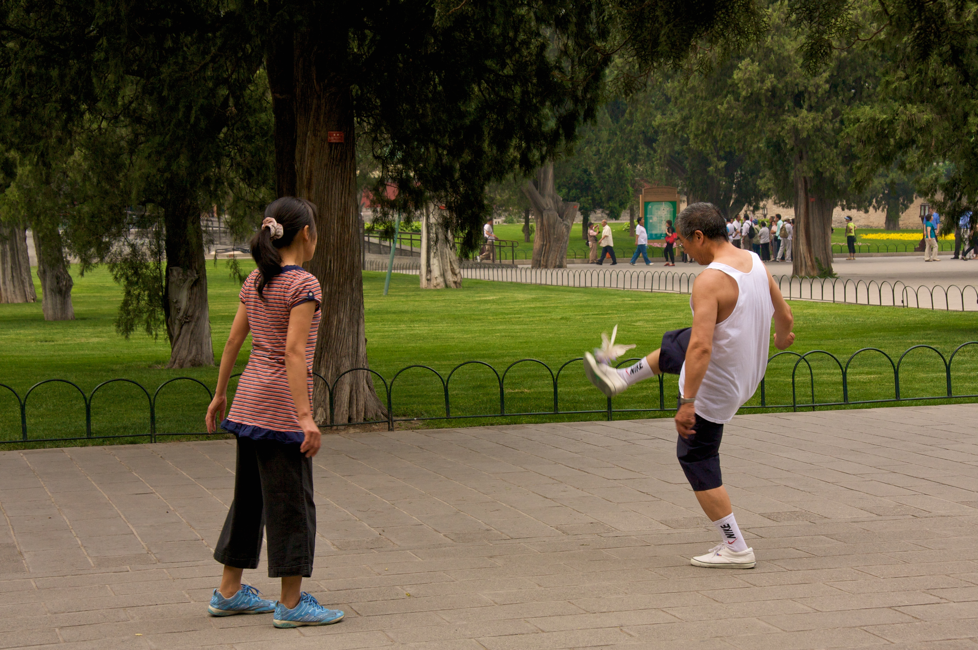 Elderly couple playing 毽子 jiànzi (kind of heavy shuttlecock-thingy that you kick around for fun) inside the Temple of Heaven.